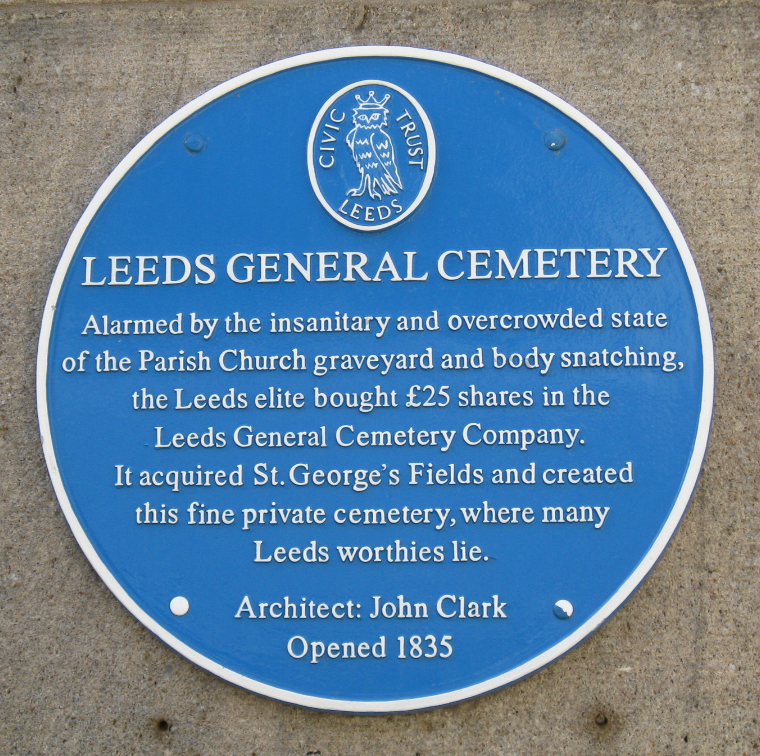 Leeds Civic Trust Blue Plaque for the Leeds General Cemetery, Woodhouse, Leeds 1835